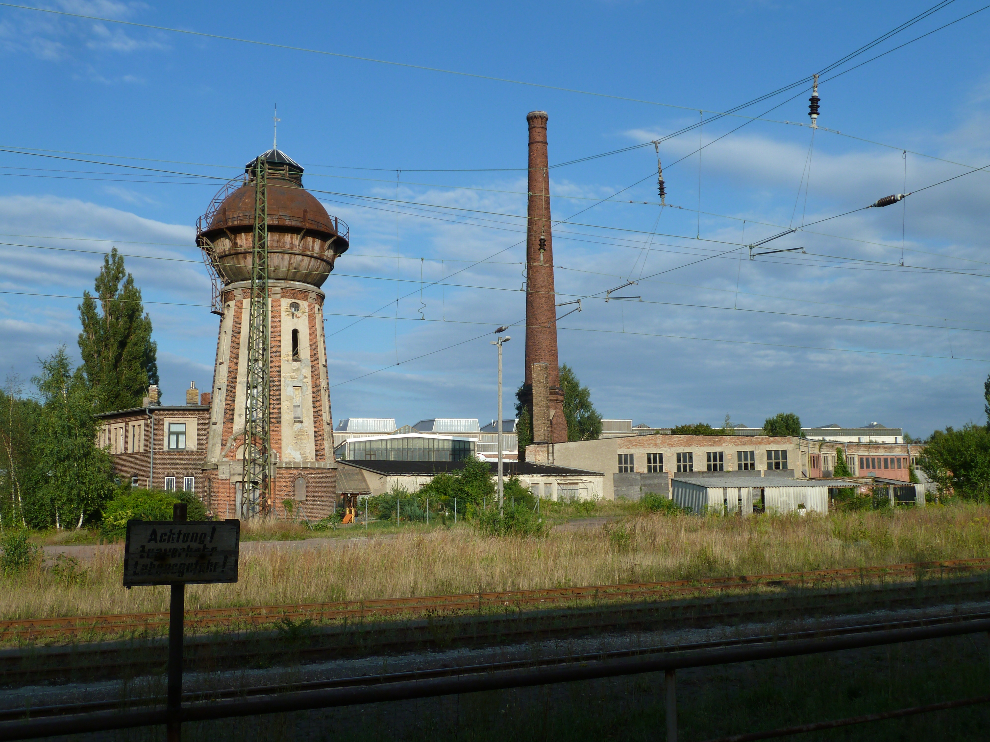 Watertower and locomotive shed in Köthen, cultural heritage